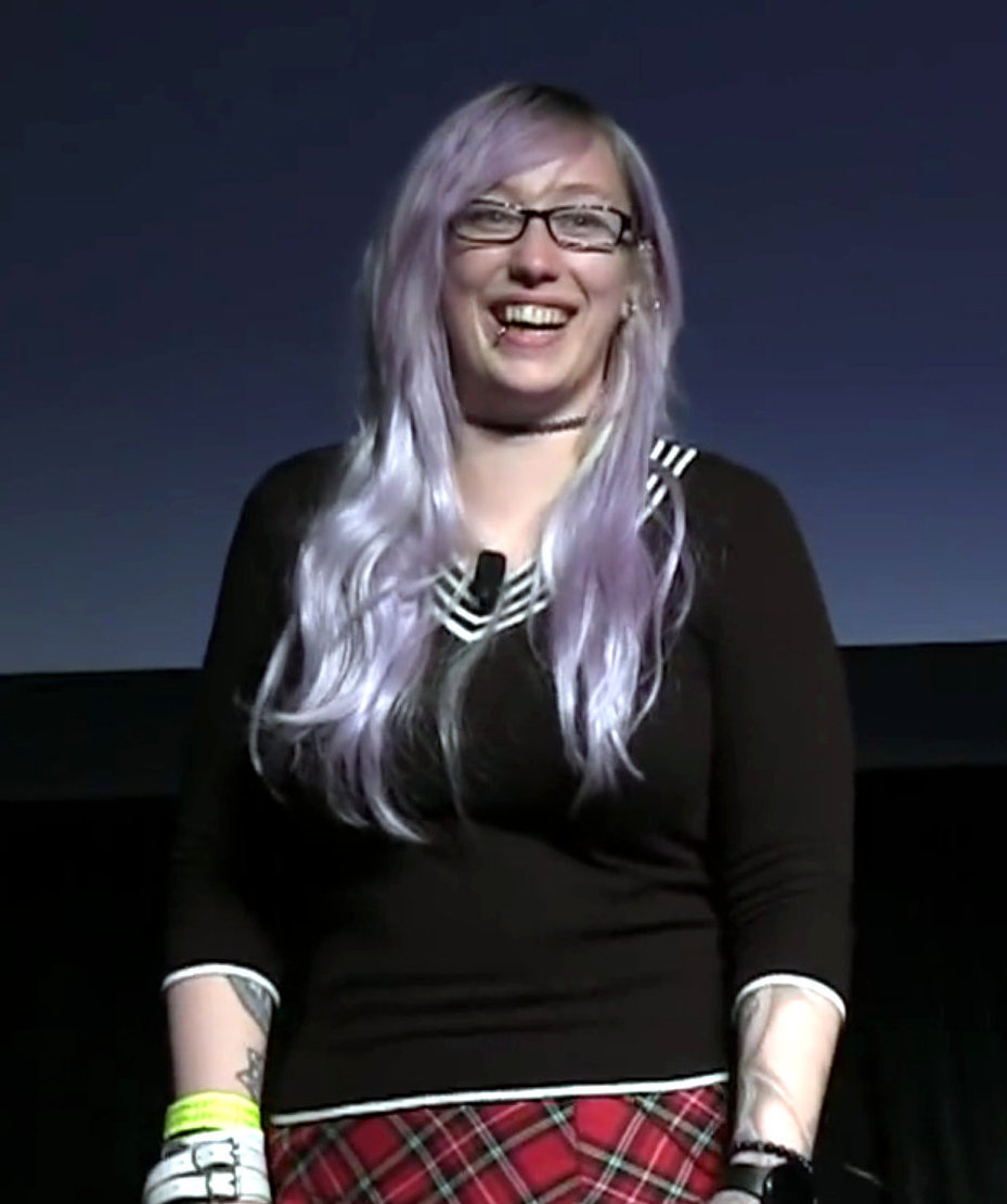 Zoe Quinn speaking to the 2015 Crash Override/XOXO Festival in Portland, Oregon